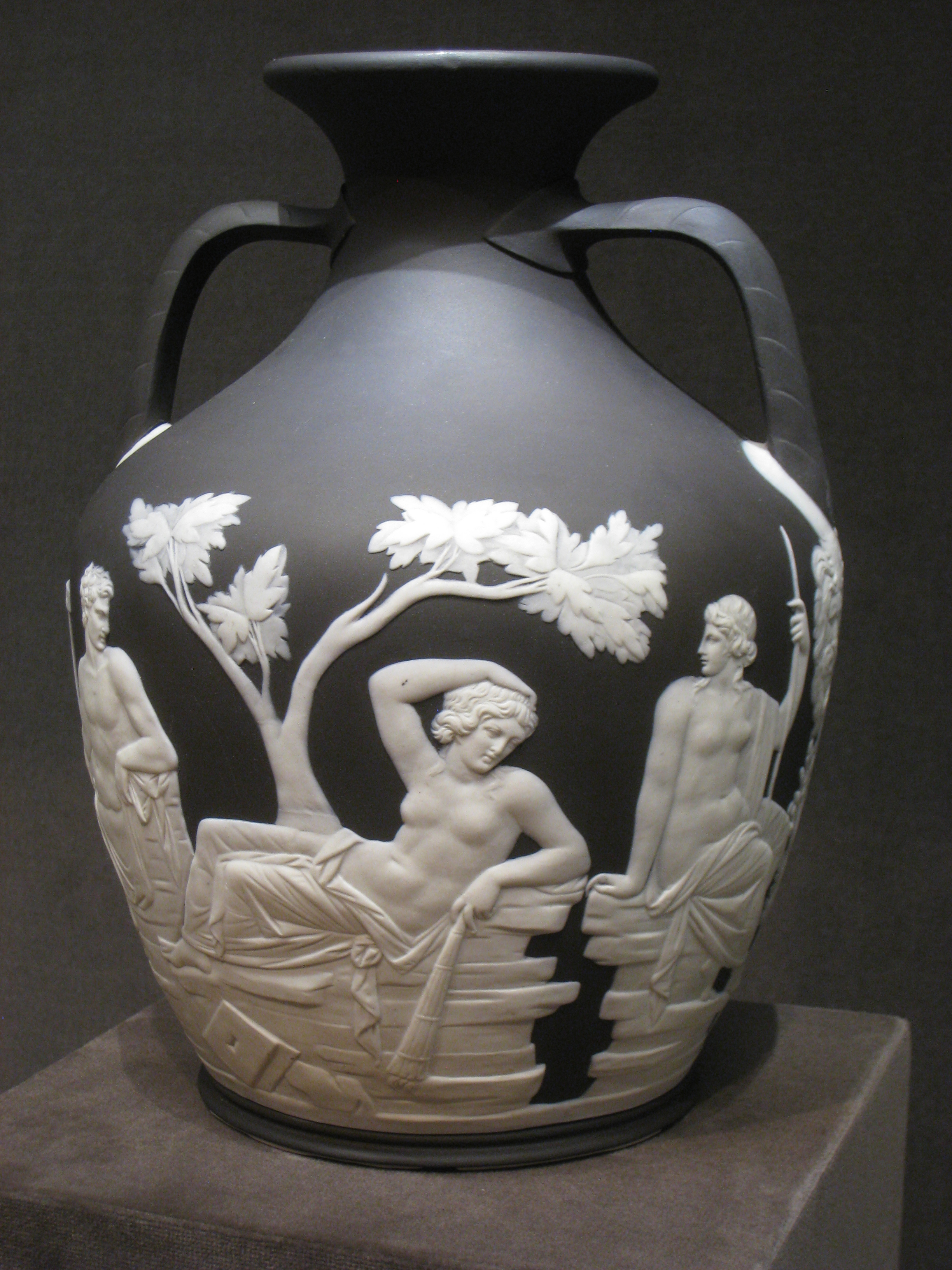 Portland Vase by Josiah Wedgwood & Sons Ltd, circa 1790, in the Cleveland Museum of Art, Cleveland, Ohio, USA. There were no prohibitions against photography in the museum. I took this photograph.